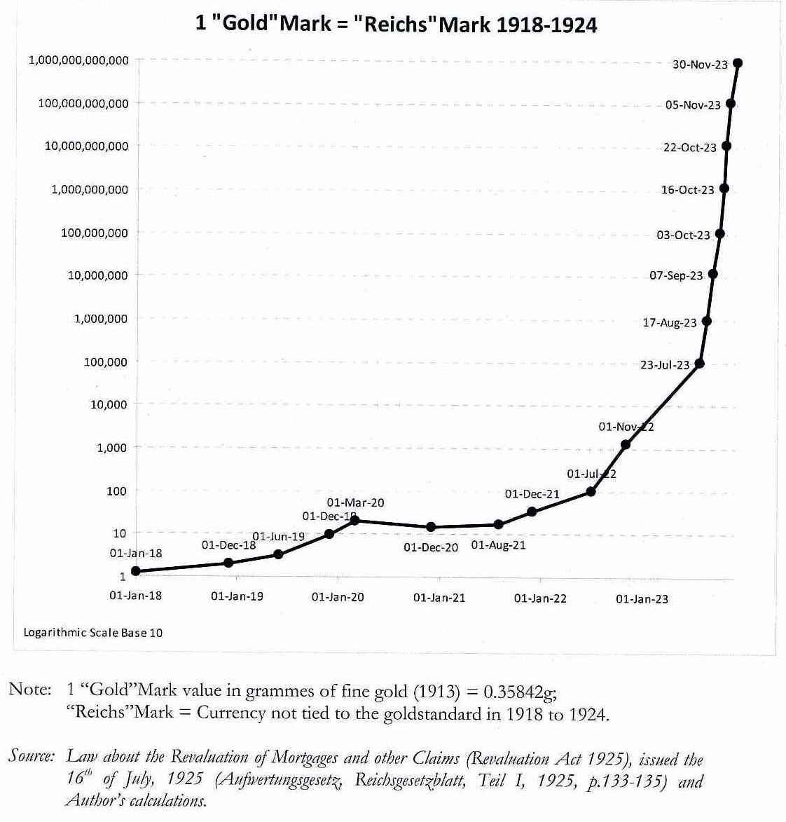 German Hyperinflation Data in a Graph